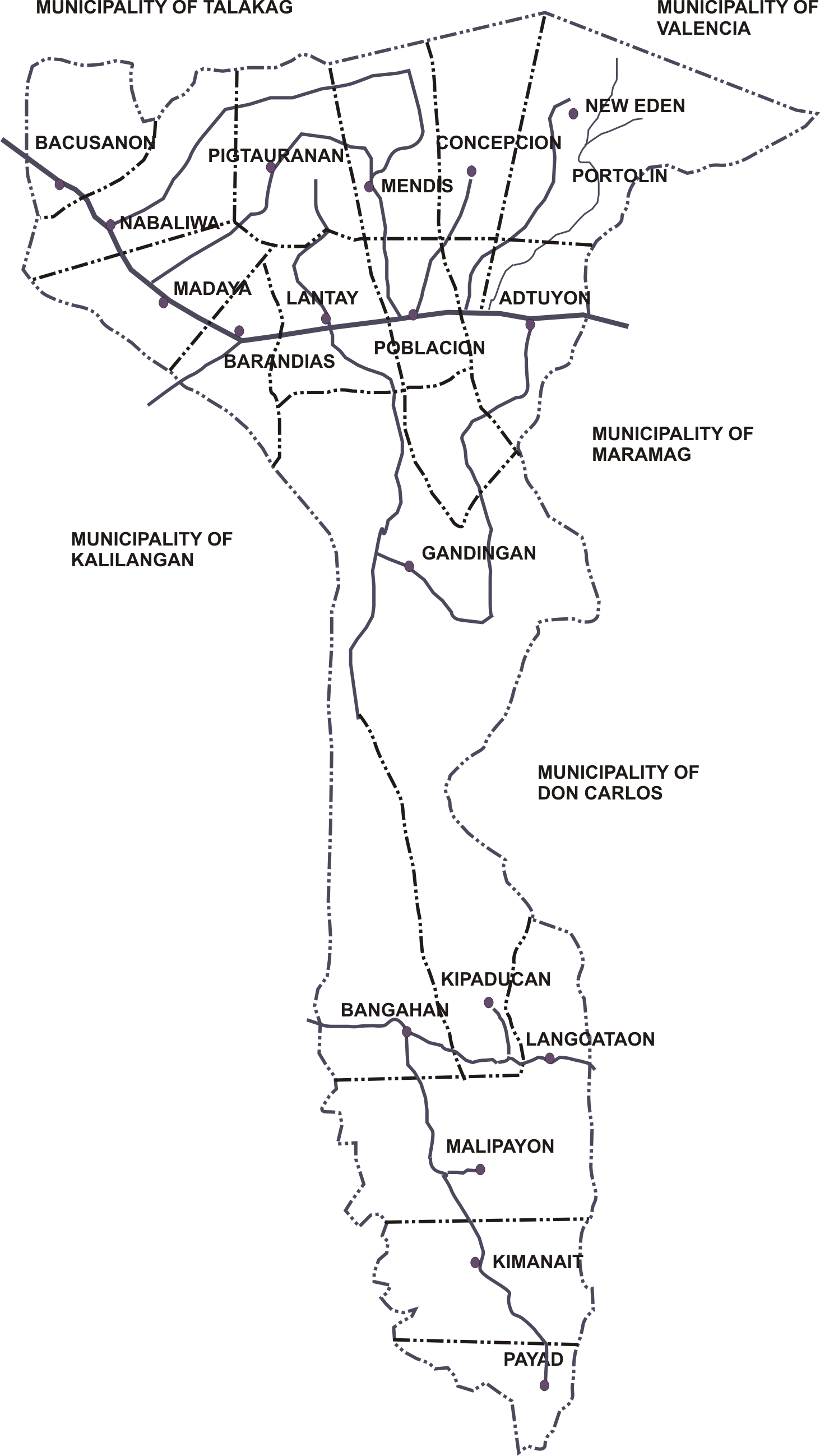 Political map of Pangantucan, Bukidnon